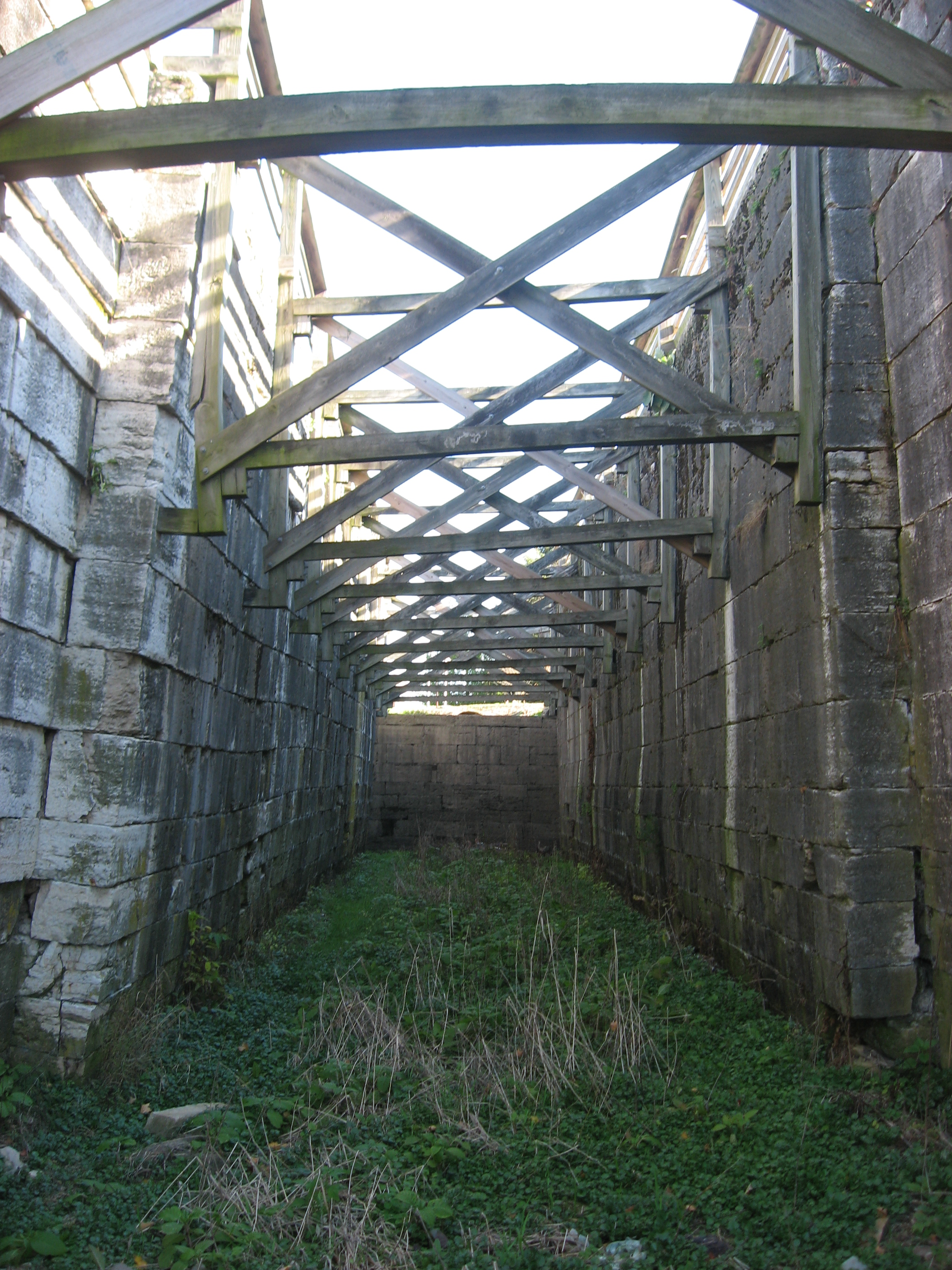 Interior of the first of the Lockington Locks, located in the southwestern part of the village of Lockington, Ohio, United States. Built in 1833 as a part of the Miami and Erie Canal, the locks are listed on the National Register of Historic Places.